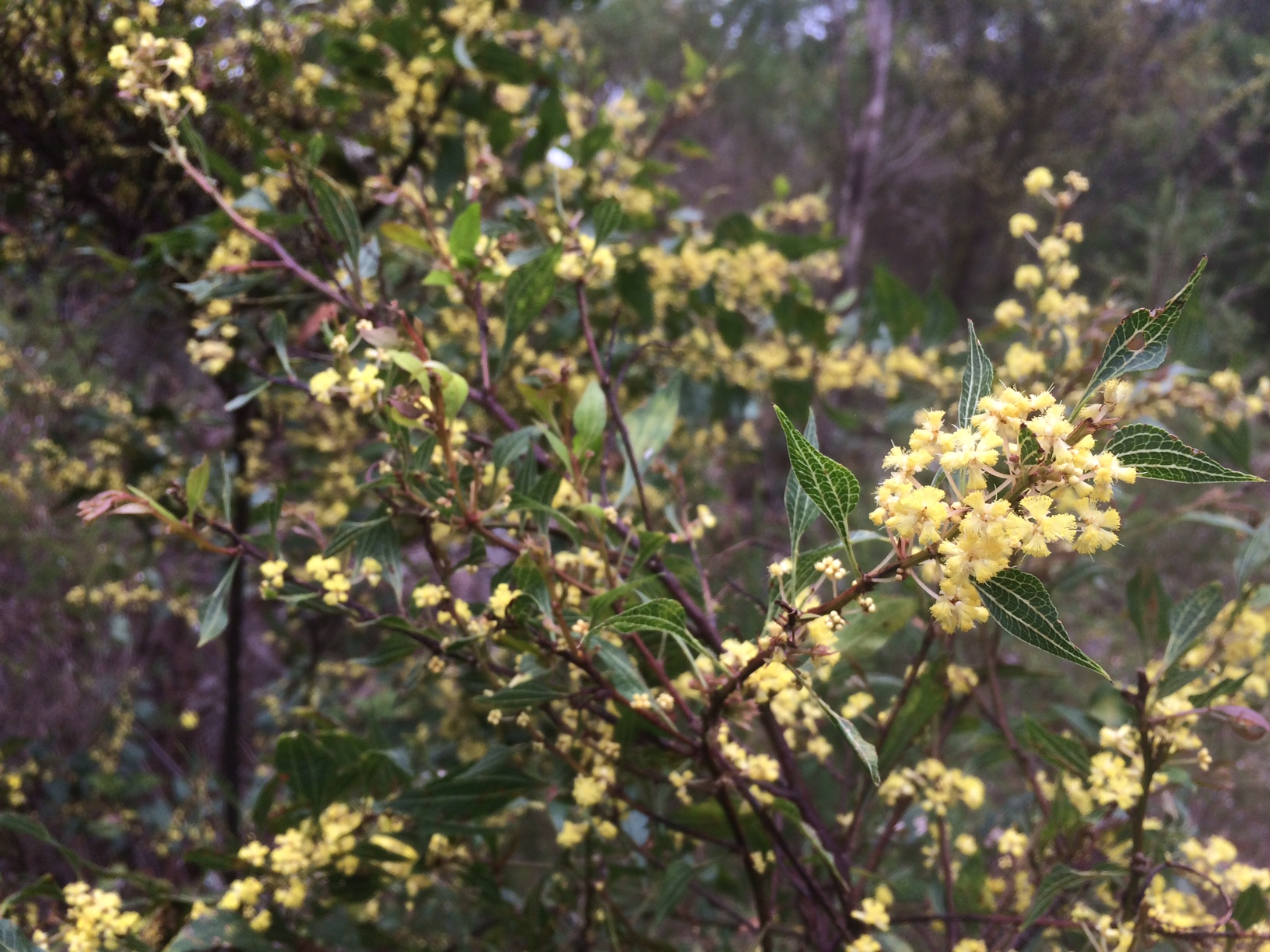 Acacia urophylla foliage and flowers near Pemberton